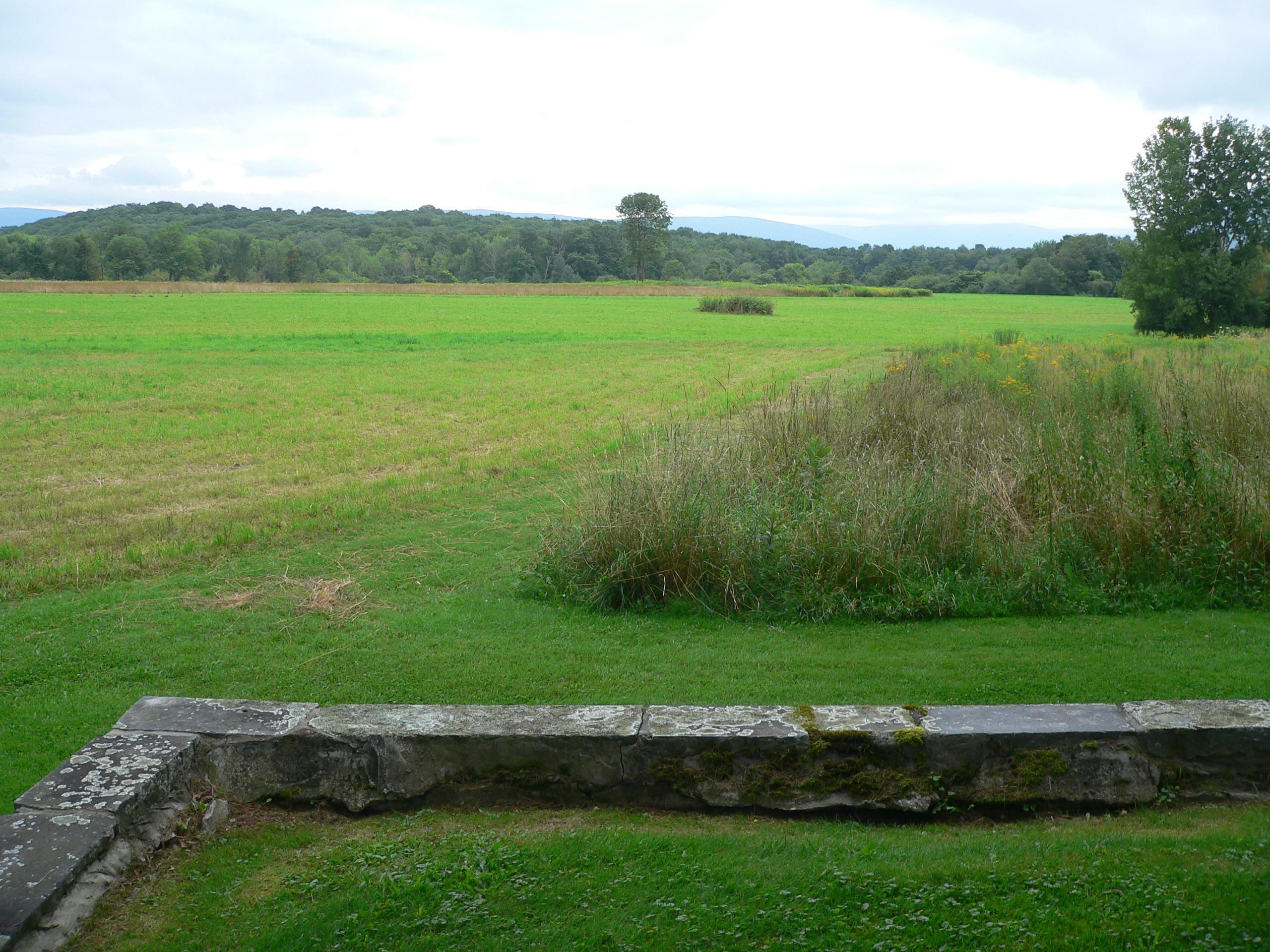 Wall and field at Field Farm in Williamstown, Mass